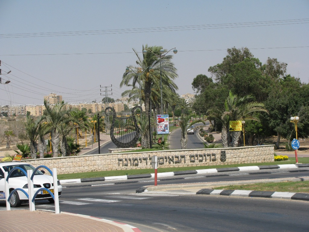 Welcome to Dimona